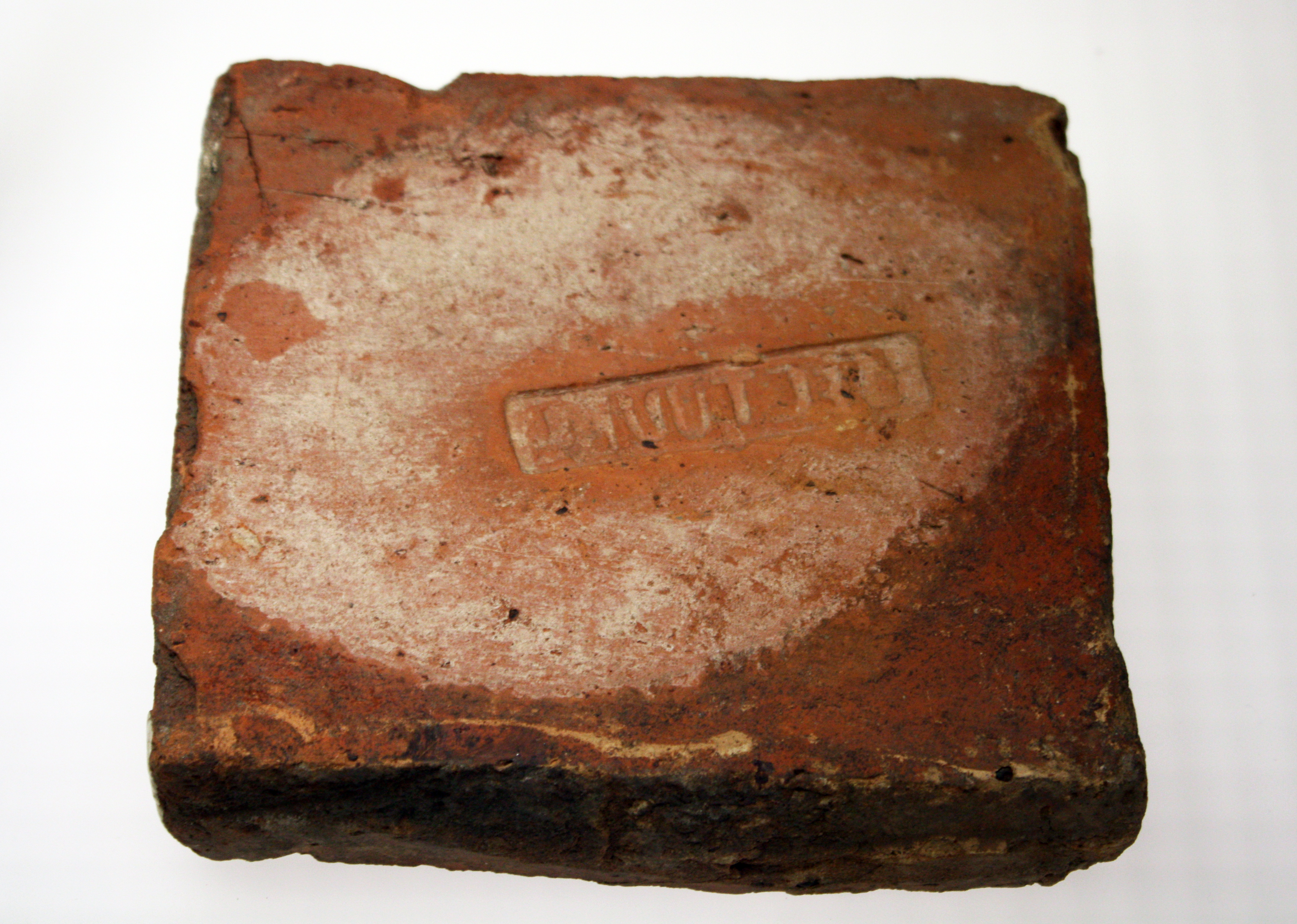 Roman brick, manufactured between the 1st and 4th century. Found in Cologne close to town hall, now in the “Römisch Germanisches Museum“.